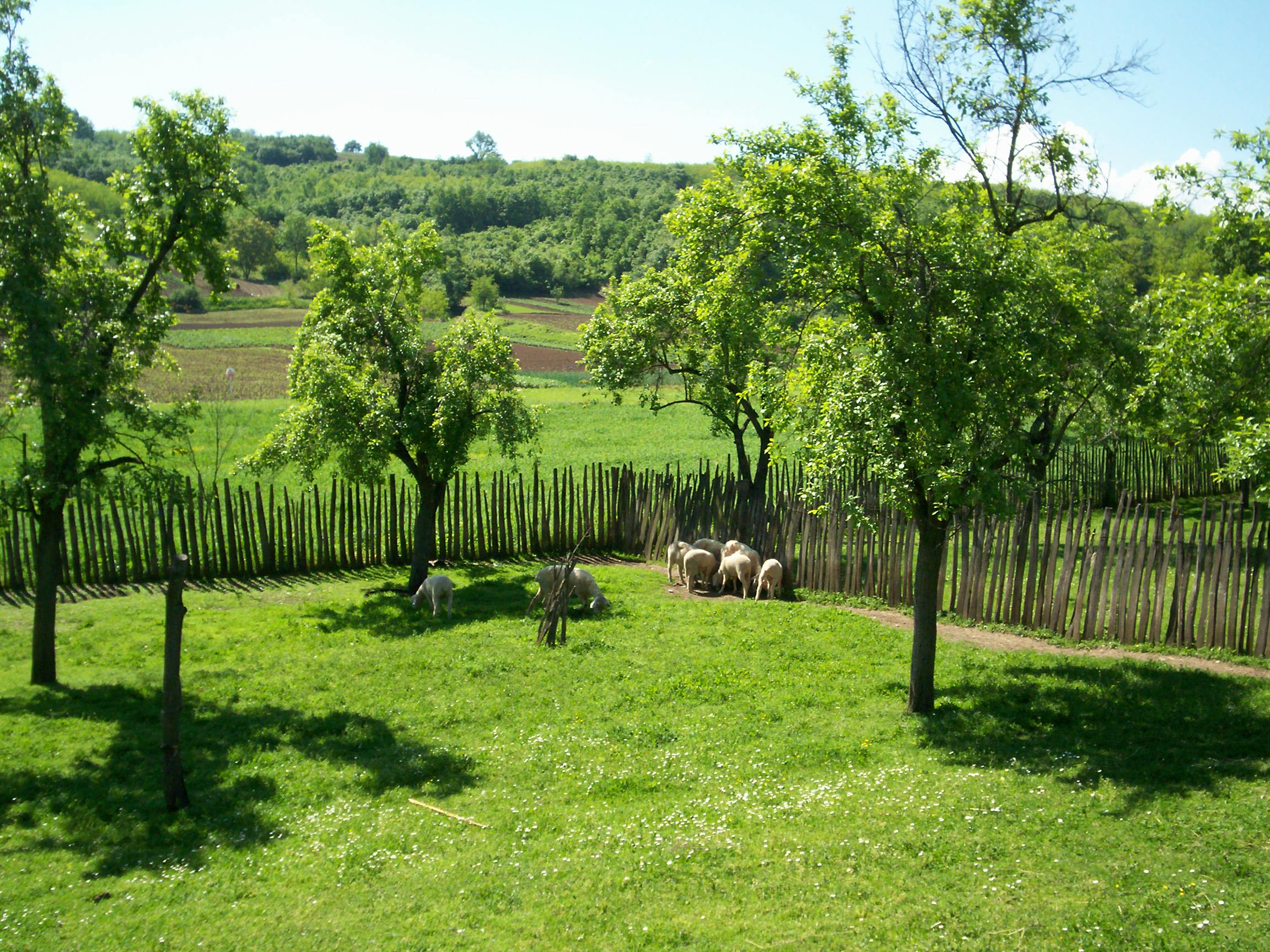 village Donje Suhotno, Serbia